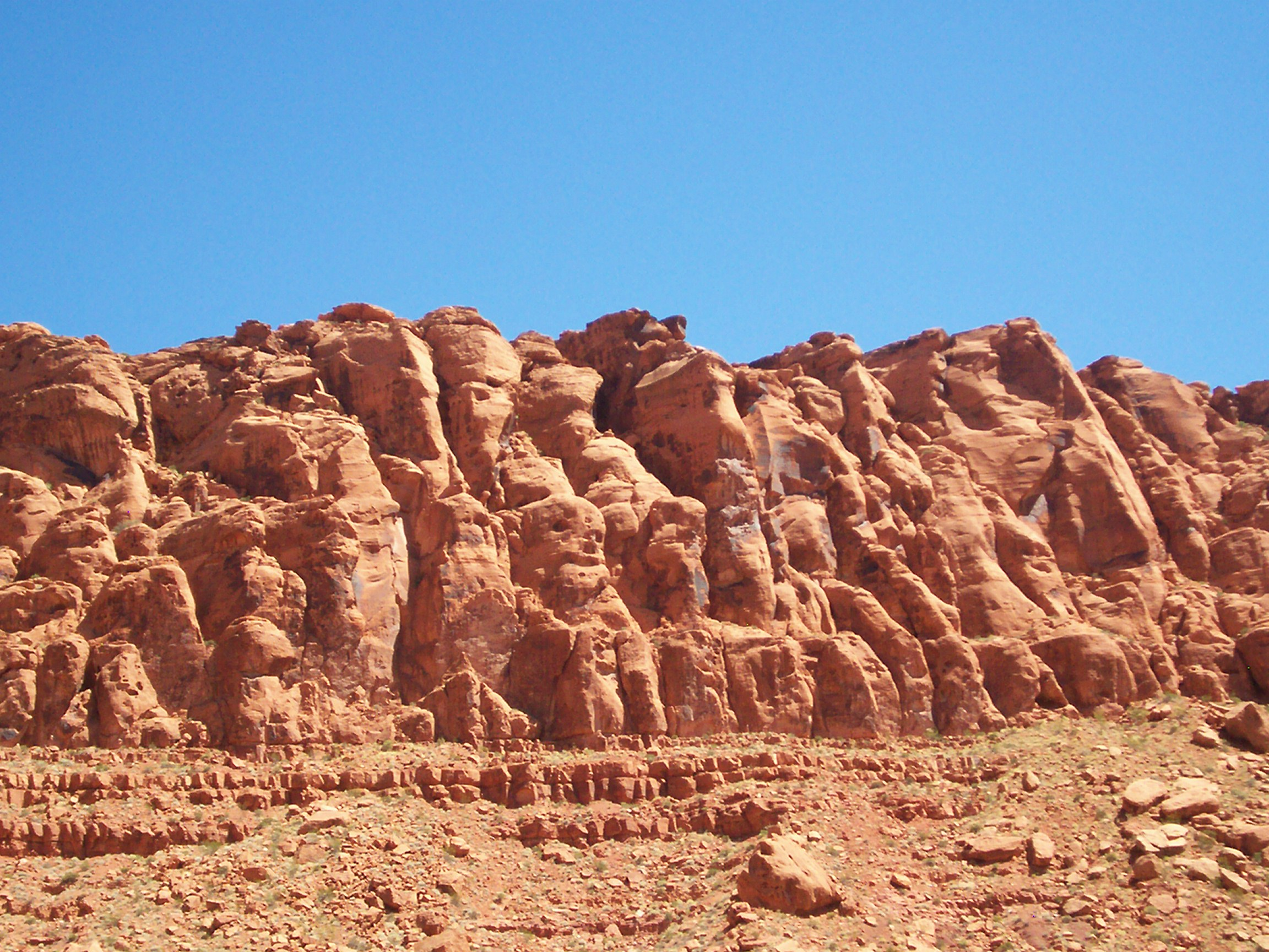 A view of Red rock formations in Snow Canyon State Park, Utah.